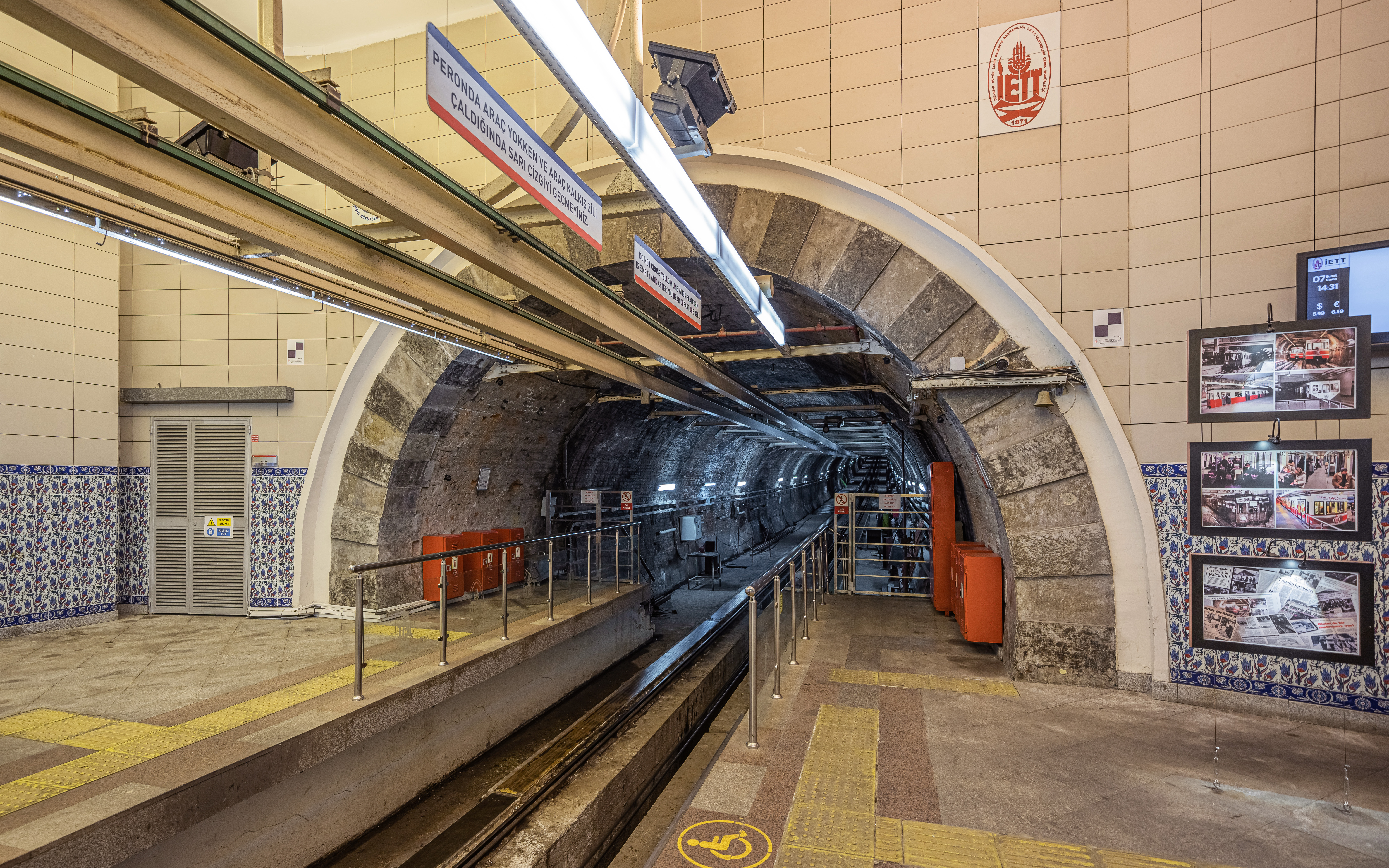 Karaköy station of the Tünel funicular in Istanbul, Turkey